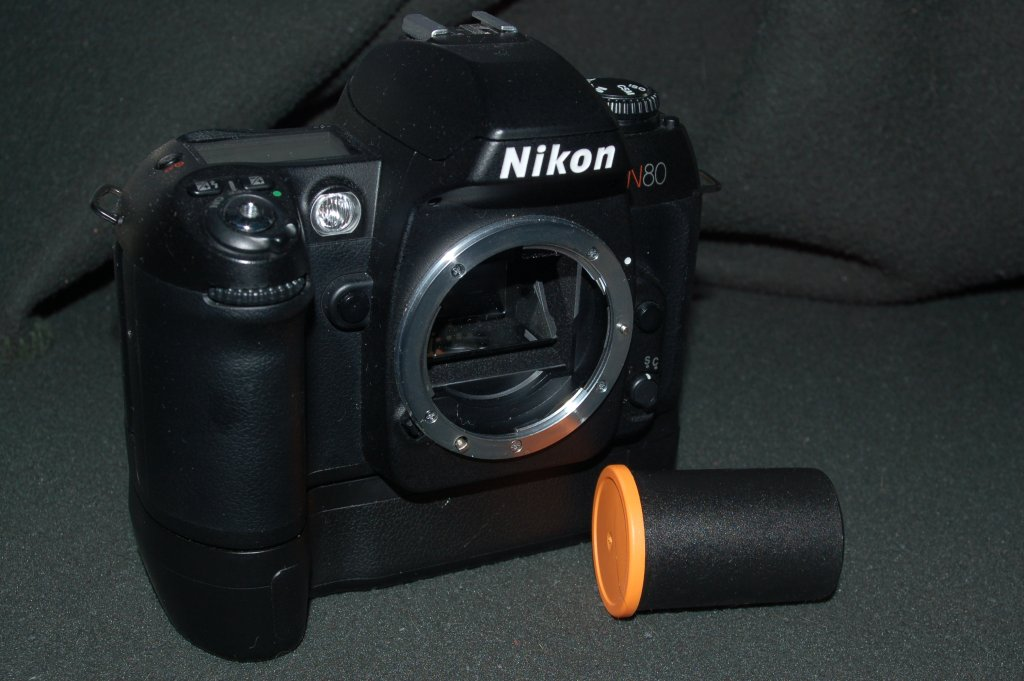 Picture of Nikon N80 (F80) SLR camera with mounted MB-16 battery grip.